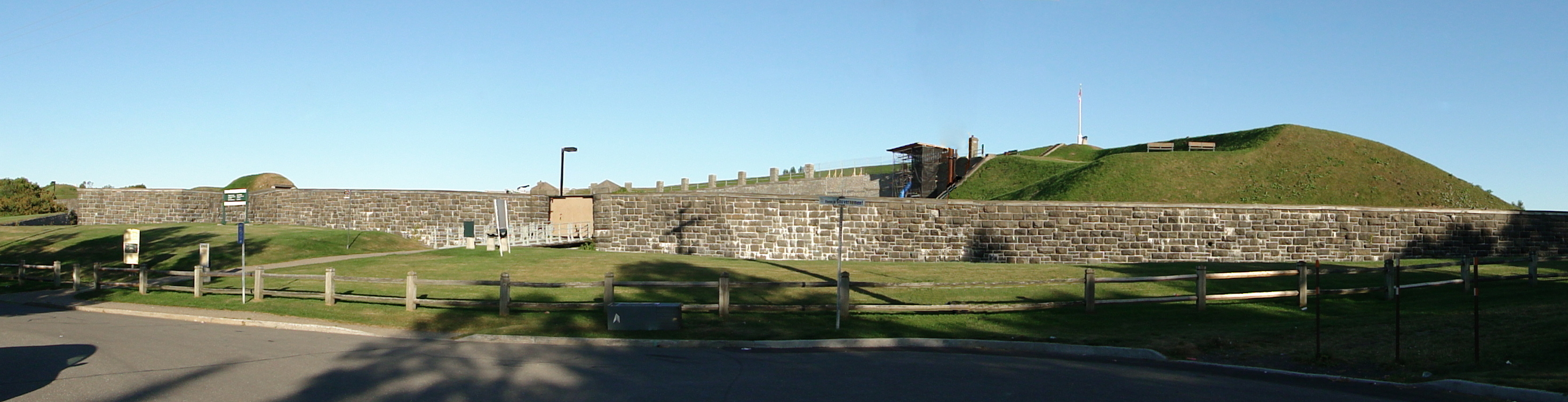 View of the back of Fort no 1, Lévis, province of Quebec, Canada